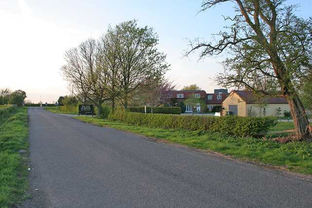 The Vale of Belvoir Inn and Hotel. On the A52 between Whatton and Elton, this large hotel used to be called The Haven Inn. Looking towards the junction of the Redmile road with the A52.